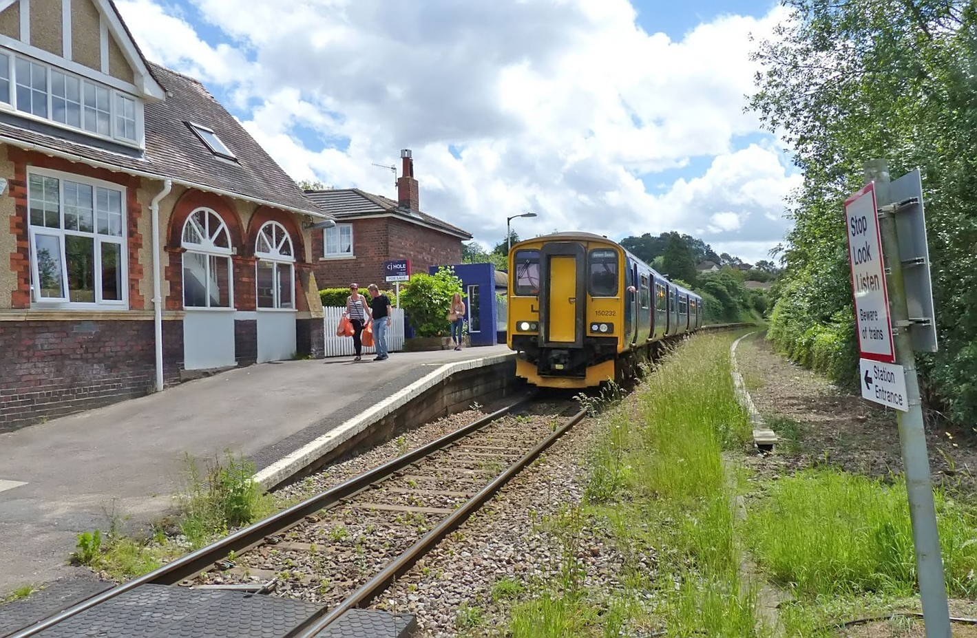 Sea Mills railway station in the Bristol district of Sea Mills, England.